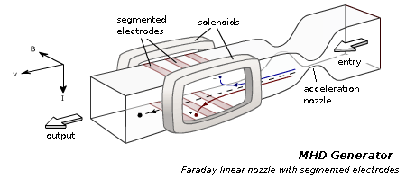 A magnetohydrodynamic generator.